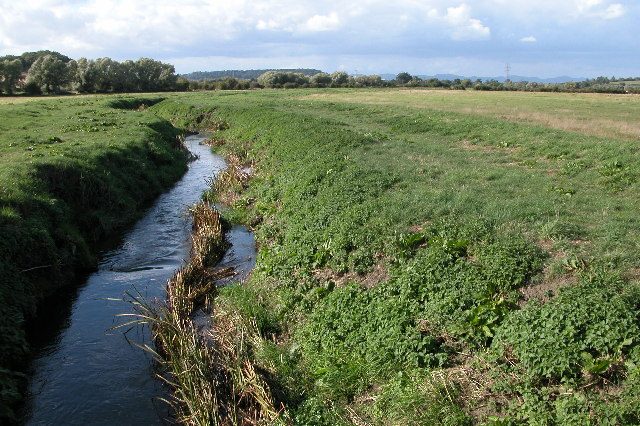 The River Chelt near Wainlode. The River Chelt is a tributary of the River Severn near Wainlode, about 1 mile downstream from this photograph. On the horizon is the line of the Malvern Hills.